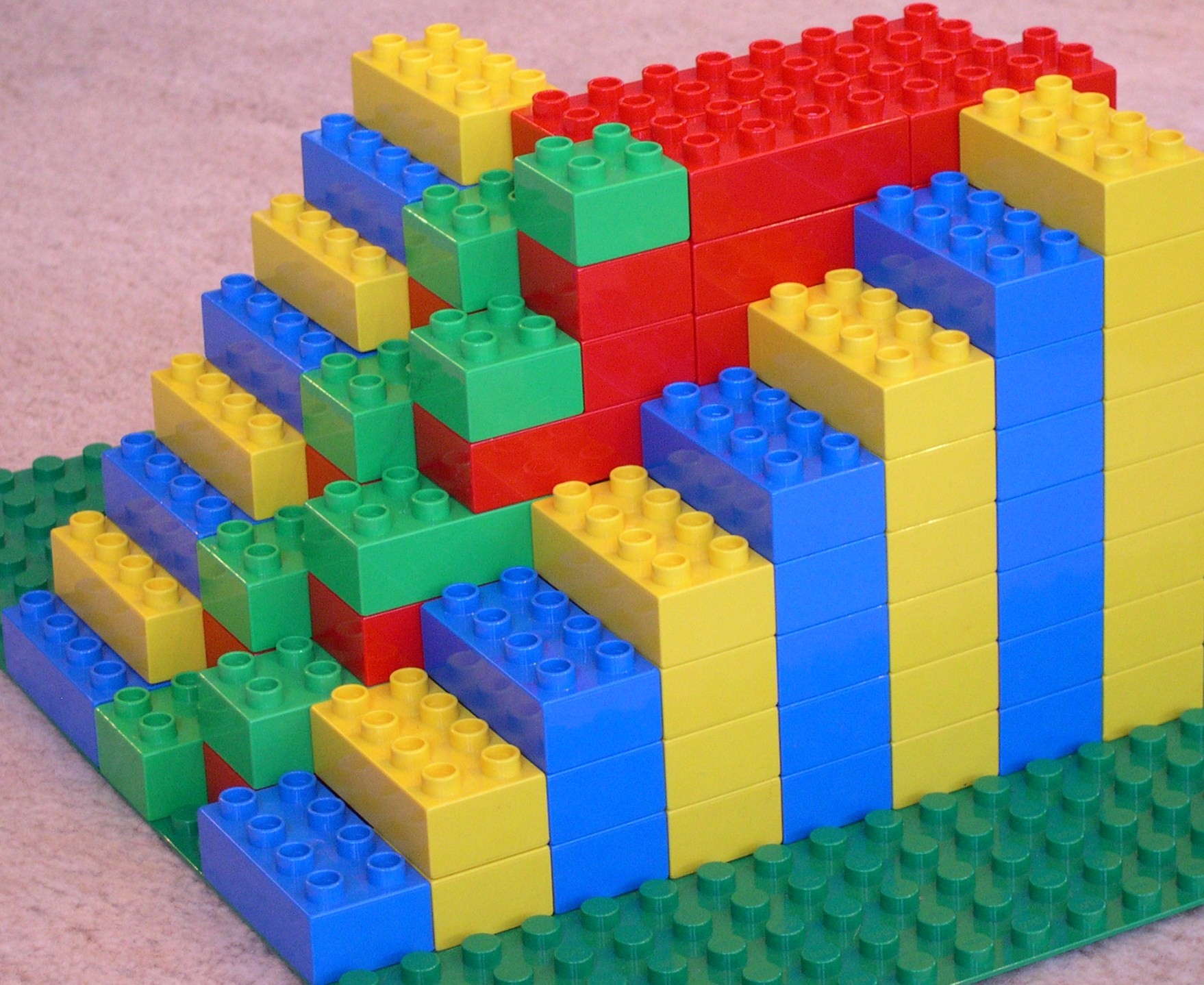 A model of an alternating tread stair (center) compared to a normal stair with half-width stairs (left) and full width stairs (right). Lego model and picture by User:Diomidis Spinellis.